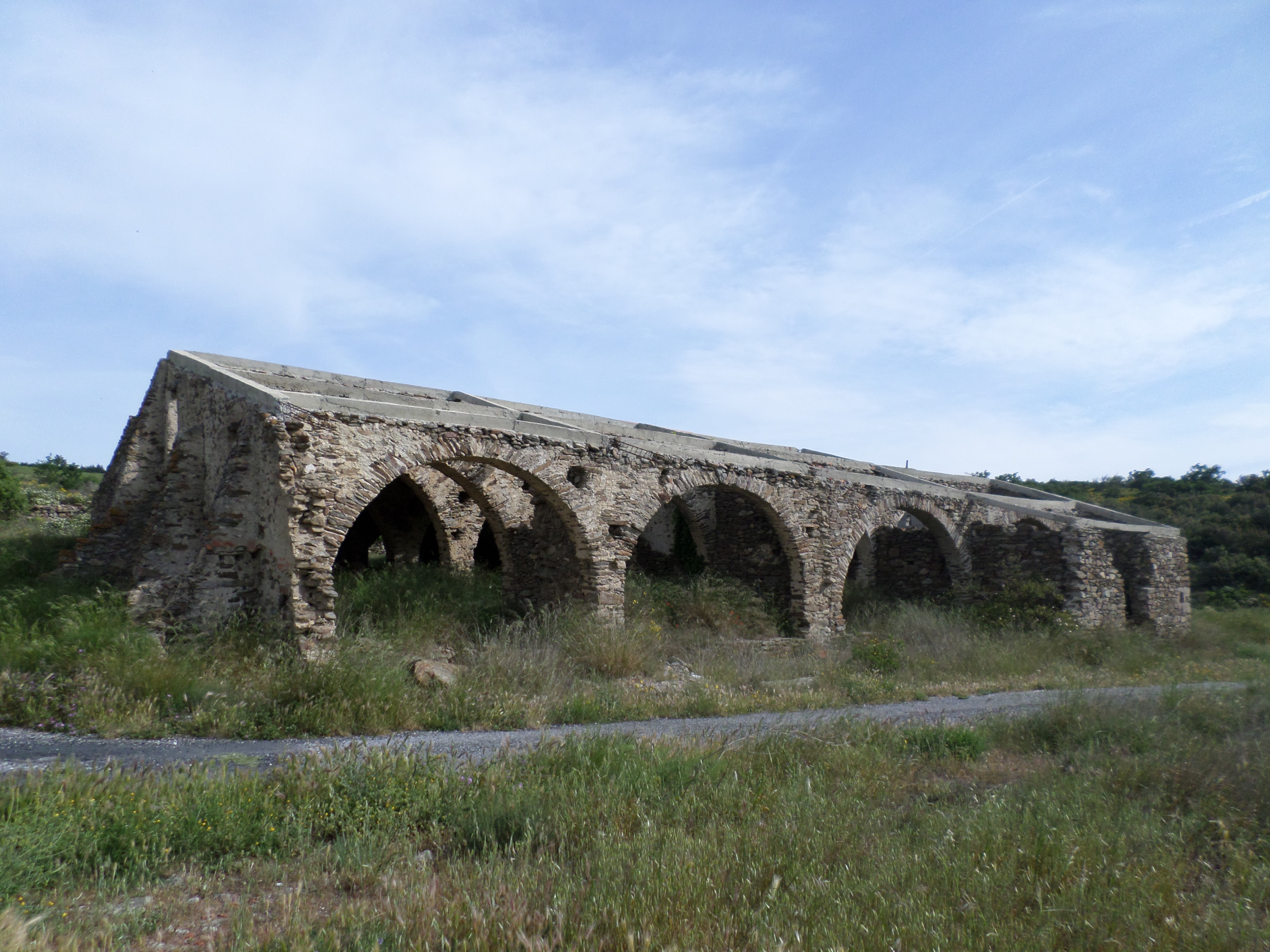 Llébrès (Hamlet in ruins), Bélesta, Pyrénées-Orientales, France